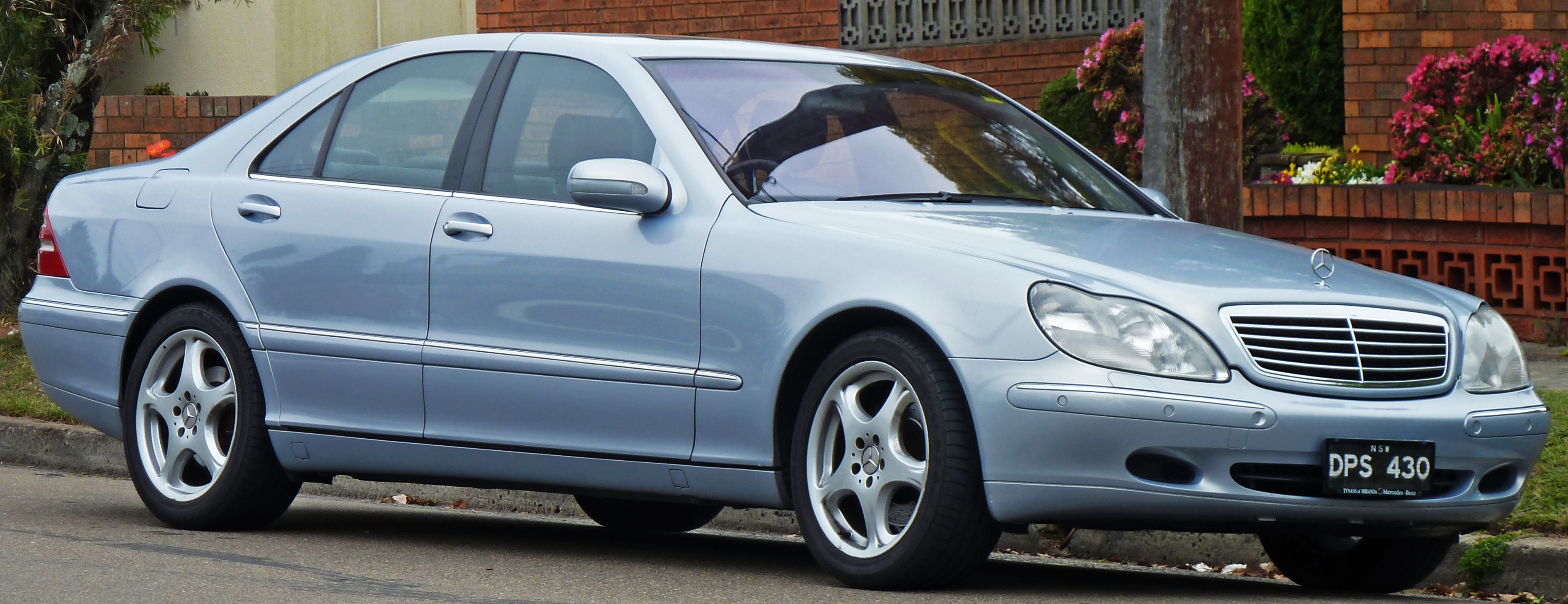 2001 Mercedes-Benz S 430 (W 220) sedan. Photographed in Sandringham, New South Wales, Australia.